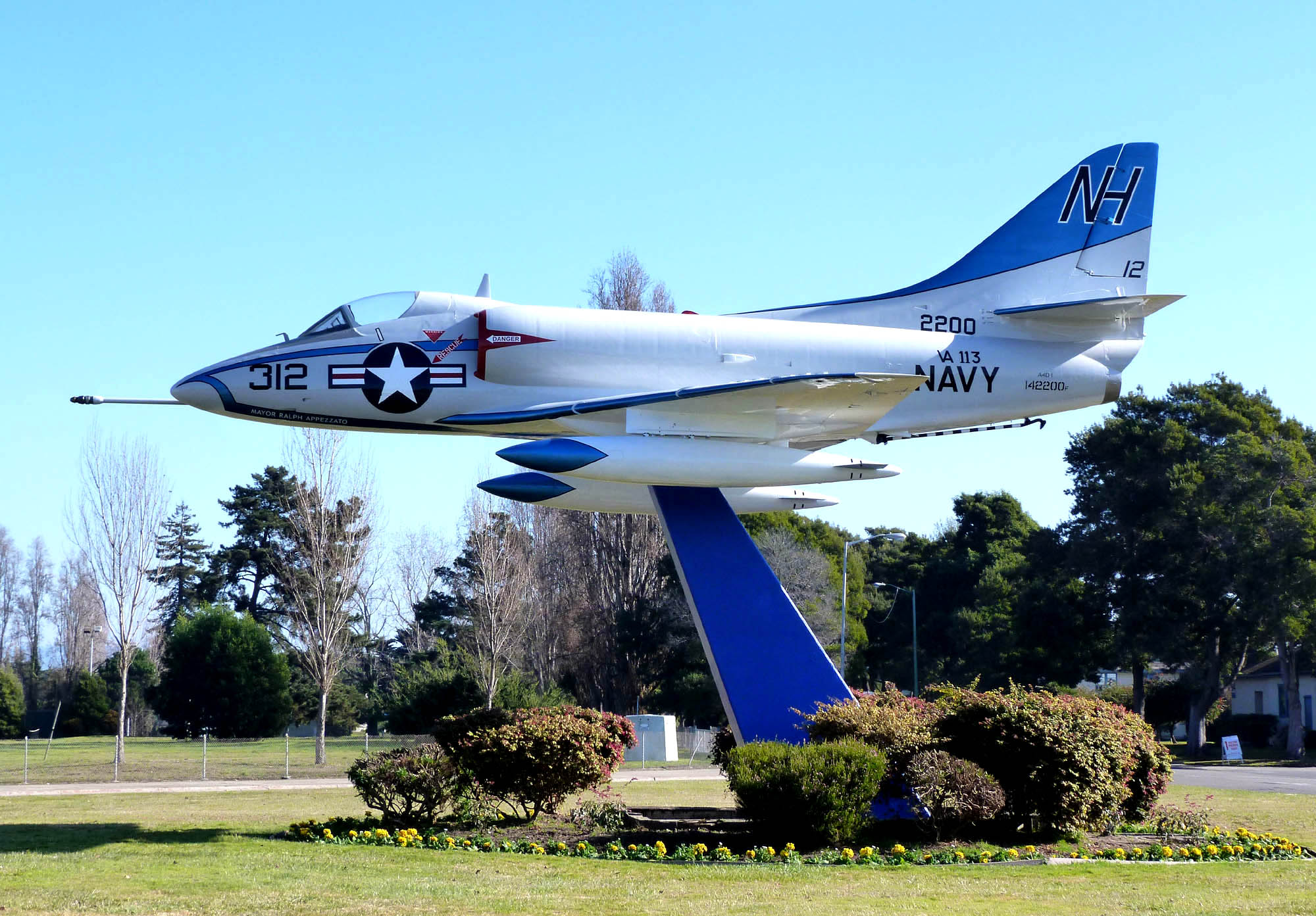 Completely restored and mounted on the pylon inside the main gate at Alameda Point (former NAS Alameda).